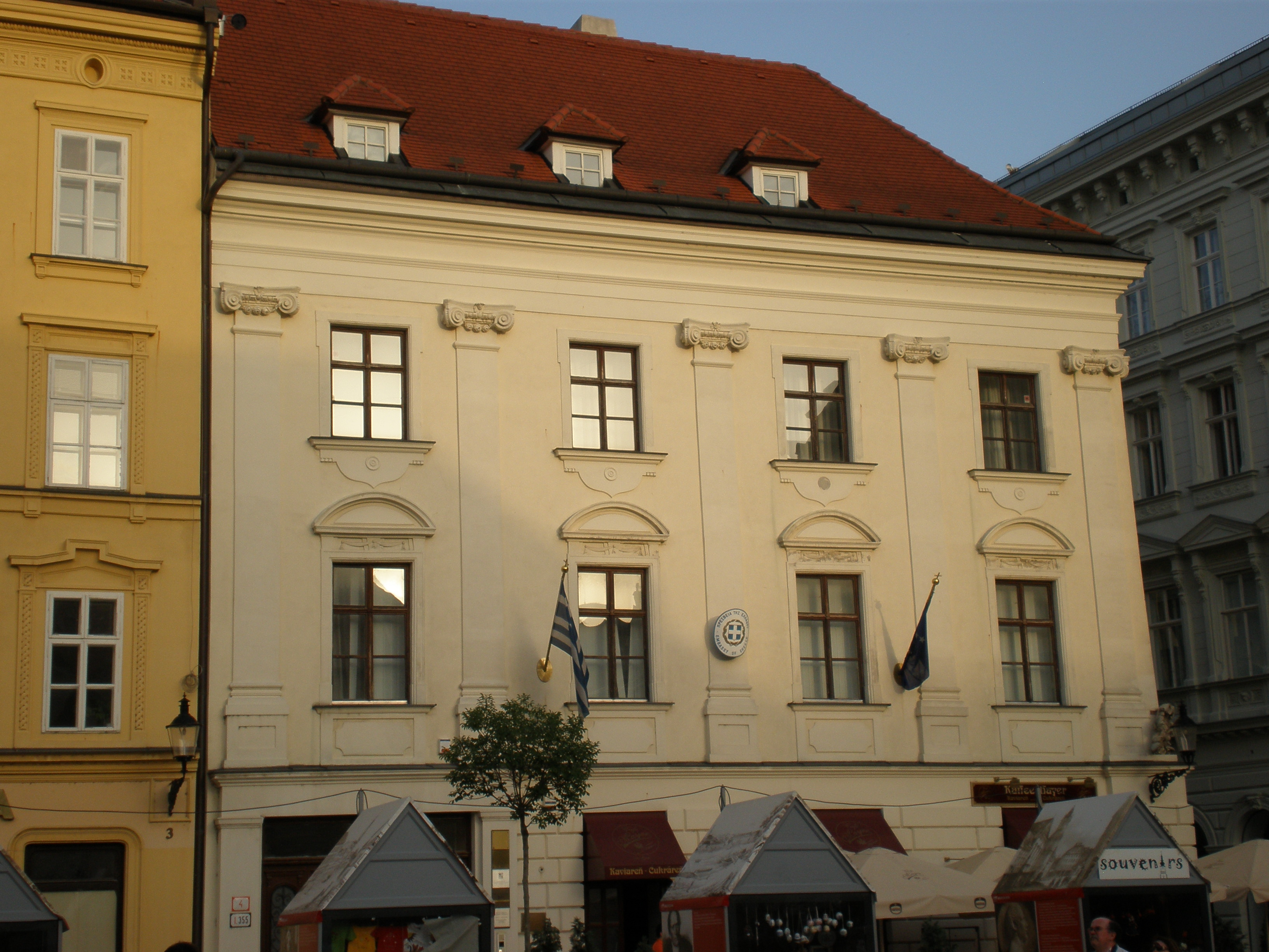 Embassy of Greece in Bratislava, Slovakia.